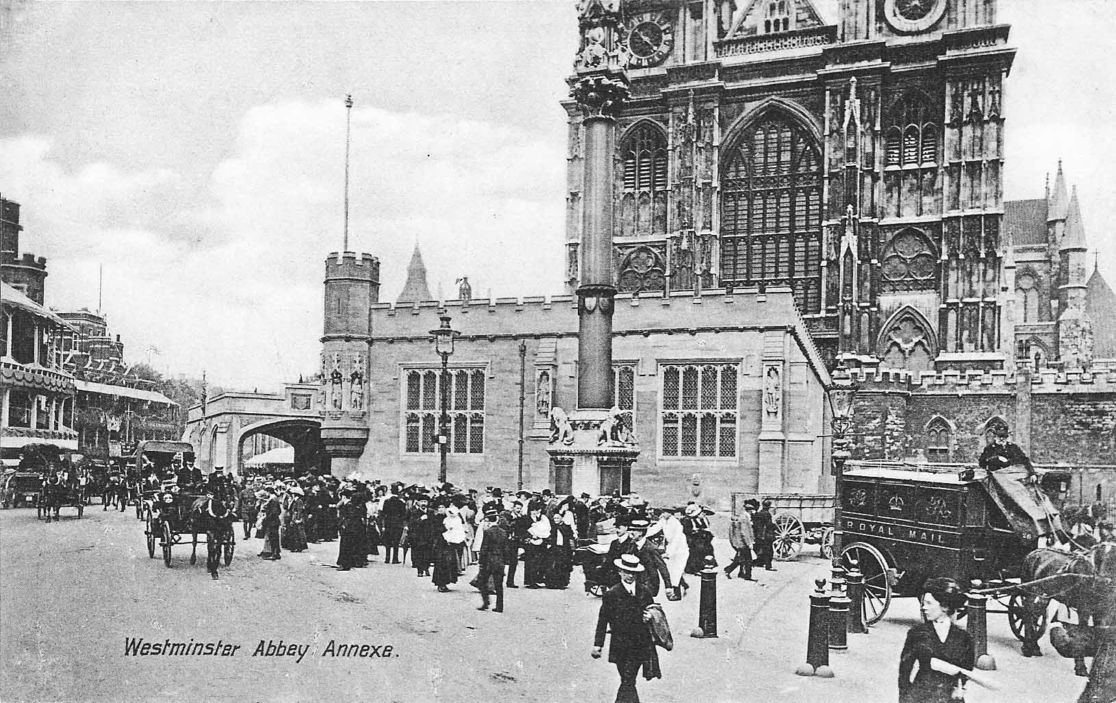 Another view of the Coronation Annexe built for the Coronation of King George V in June 1911. A Cannon Row Police Constable can be seen in the crowd centre right.